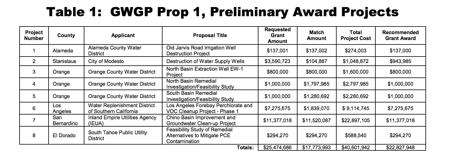 Table of Preliminary Award Projects